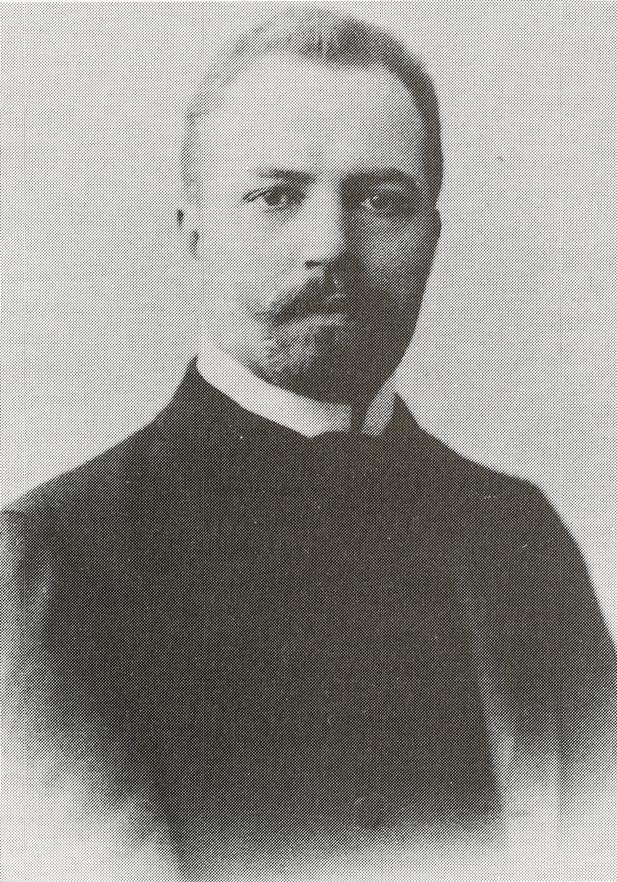 Bronisław Kader (1863-1937)